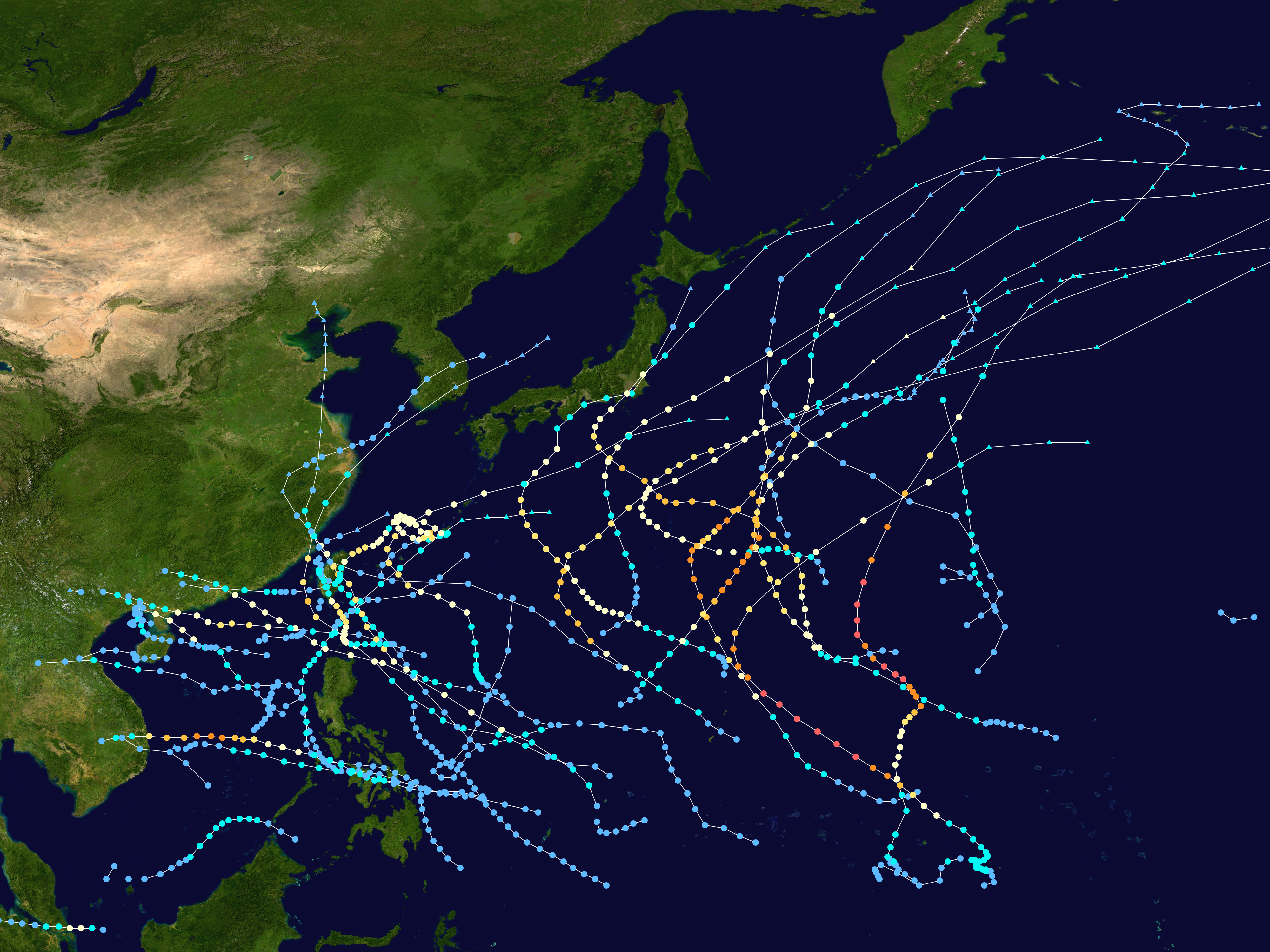 This map shows the tracks of all tropical cyclones in the 2001 Pacific typhoon season. The points show the location of each storm at 6-hour intervals. The colour represents the storm's maximum sustained wind speeds as classified in the Saffir-Simpson Hurricane Scale (see below), and the shape of the data points represent the type of the storm. Map generation parameters: --res 4000 --extra 1 --dots 0.2 --lines 0.04 --xmin 100 --xmax 180 --ymin 0 --ymax 60 Saffir–Simpson scale Tropical depression≤38 mph≤62 km/h Category 3111–129 mph178–208 km/h Tropical storm39–73 mph63–118 km/h Category 4130–156 mph209–251 km/h Category 174–95 mph119–153 km/h Category 5≥157 mph≥252 km/h Category 296–110 mph154–177 km/h Unknown Storm type Tropical cyclone Subtropical cyclone Extratropical cyclone / Remnant low / Tropical disturbance / Monsoon depression